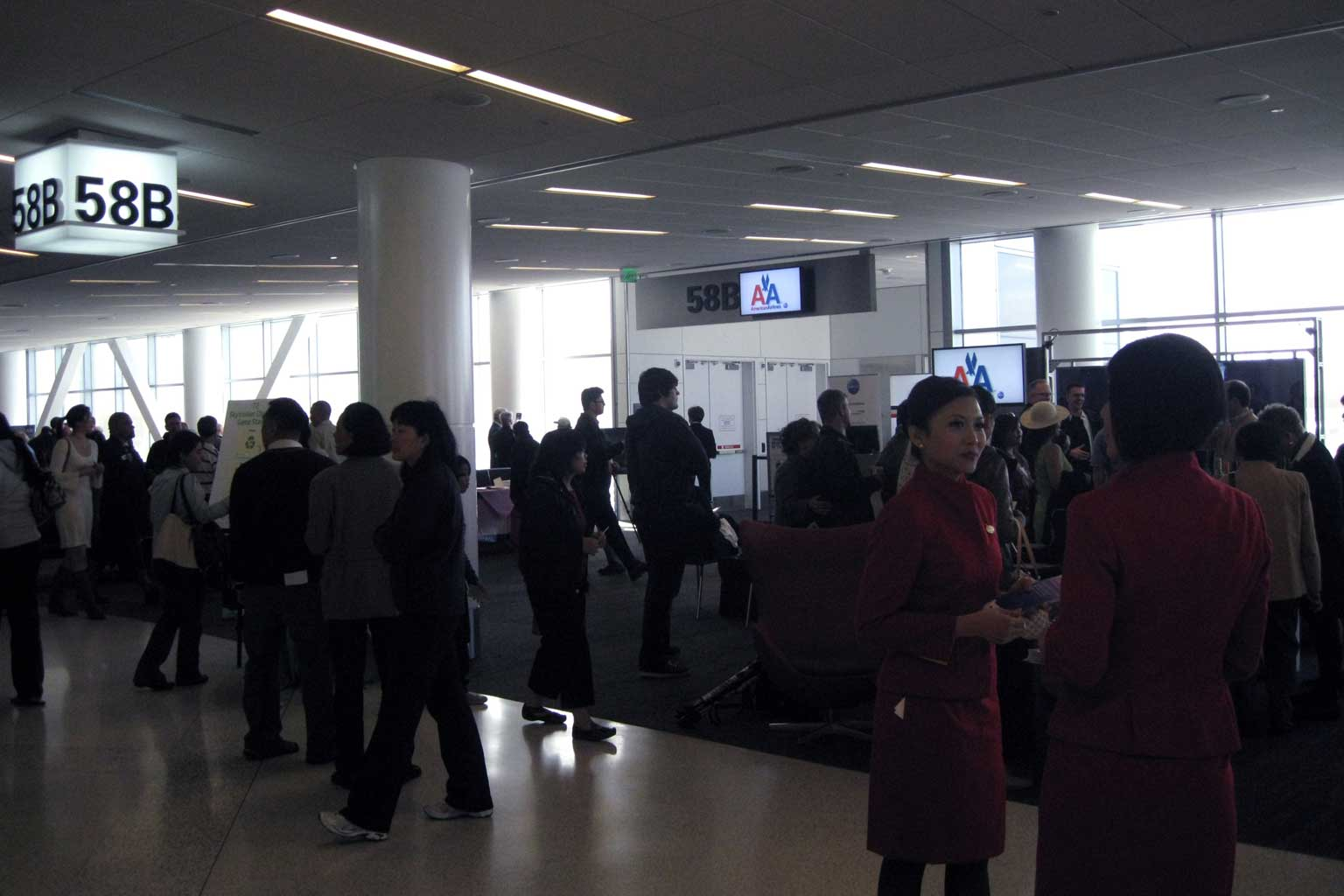 Gate 58B in Terminal 2 at San Francisco International Airport during the community open house on April 9, 2011.